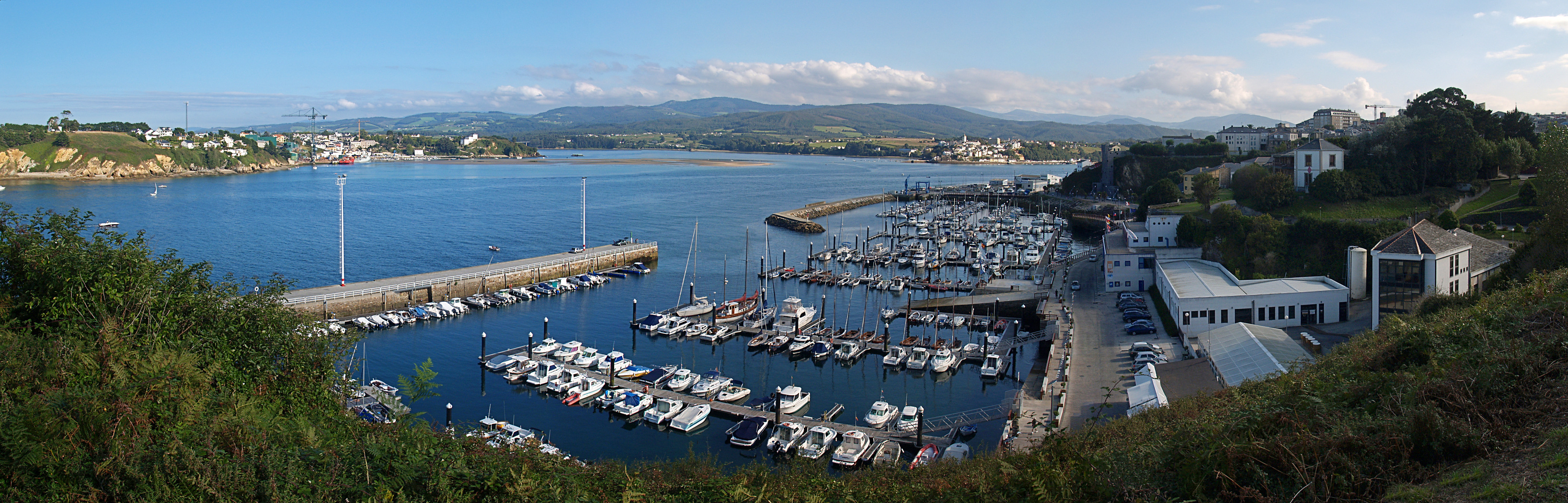 Marina of Ribadeo. On the other side of the ria: left: As Figueiras; right: Castropol. Stitch of 3 horizontal images.